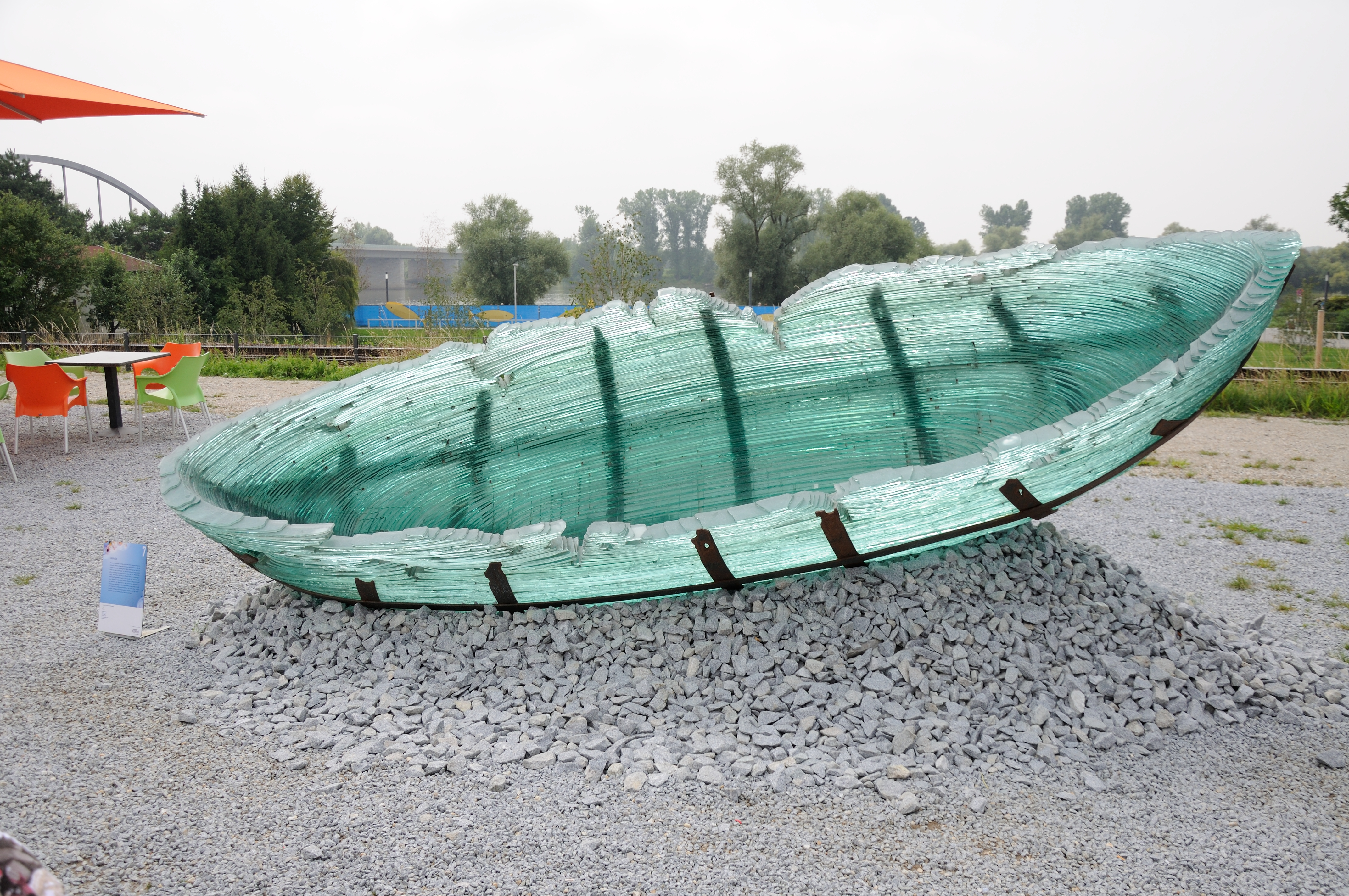 Germany, Bavaria, impressions from the Landesgartenschau in Deggendorf